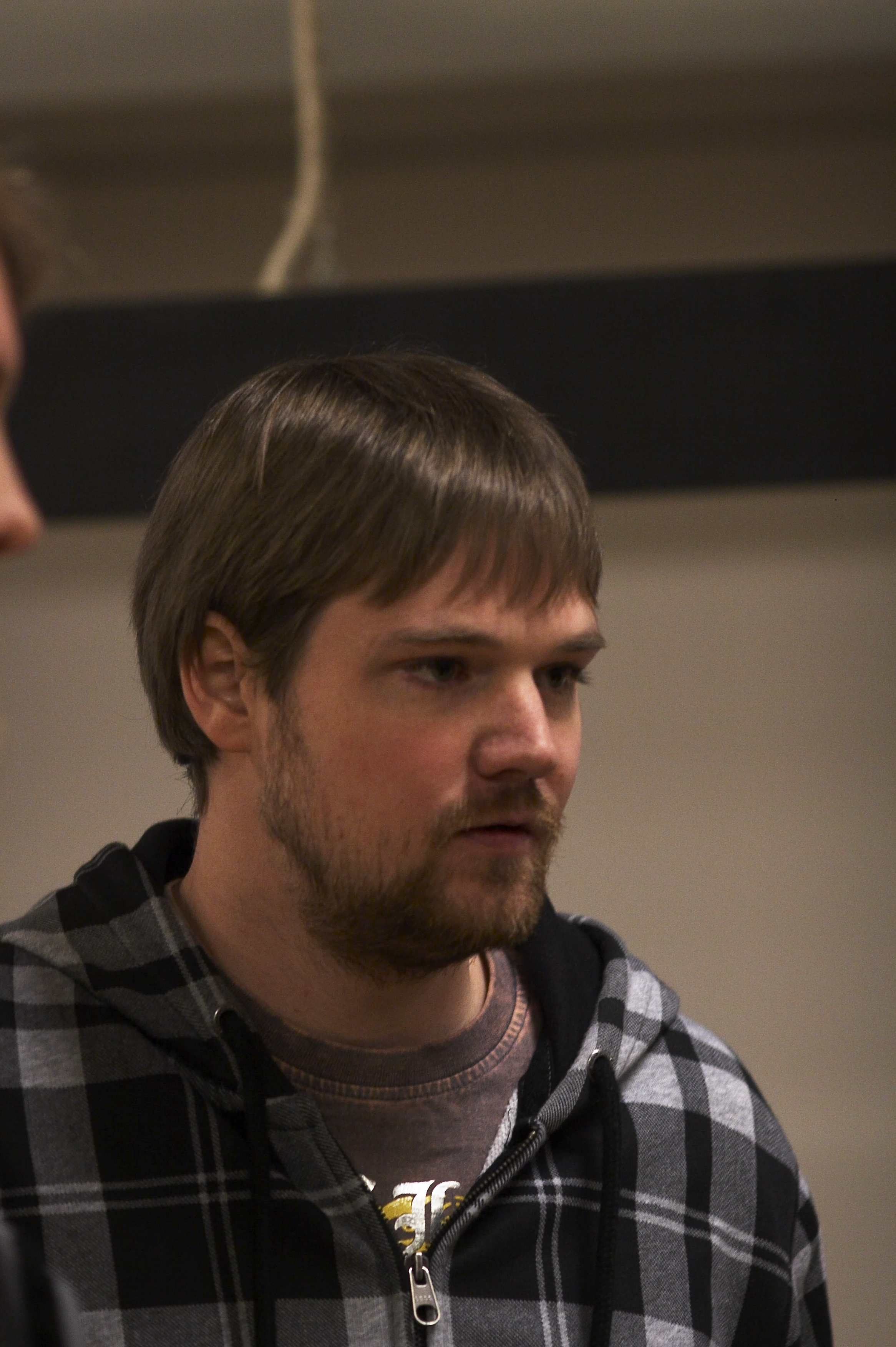 Fredrik Neij, defendant, during TPB trial.